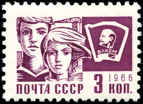 Soviet Russia 3k stamp of 1968 (engraved version of 1966 design)